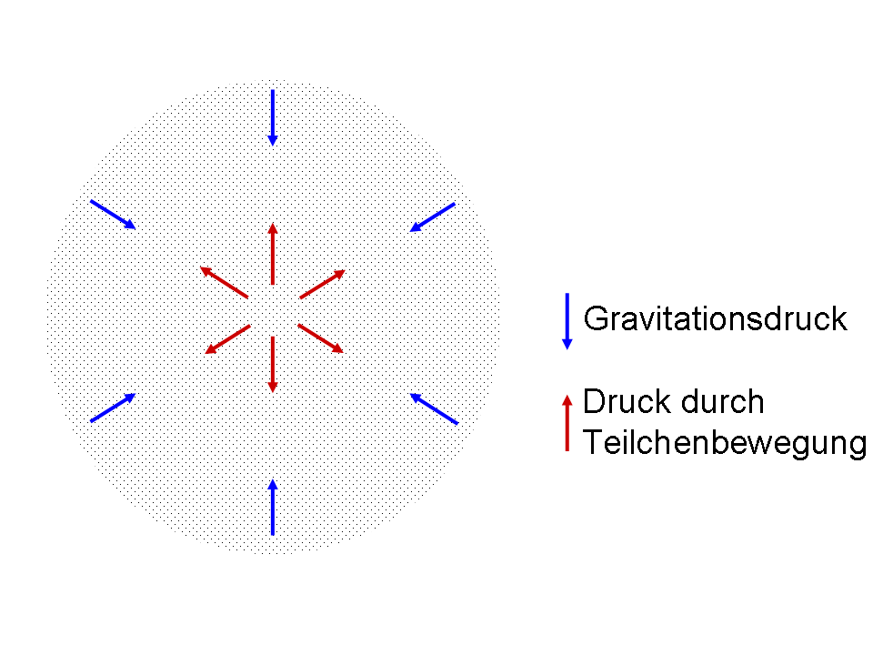 Explanation of the Jeans instability. Molecular cloud collapses when gravitation overwhelms molecular forces.